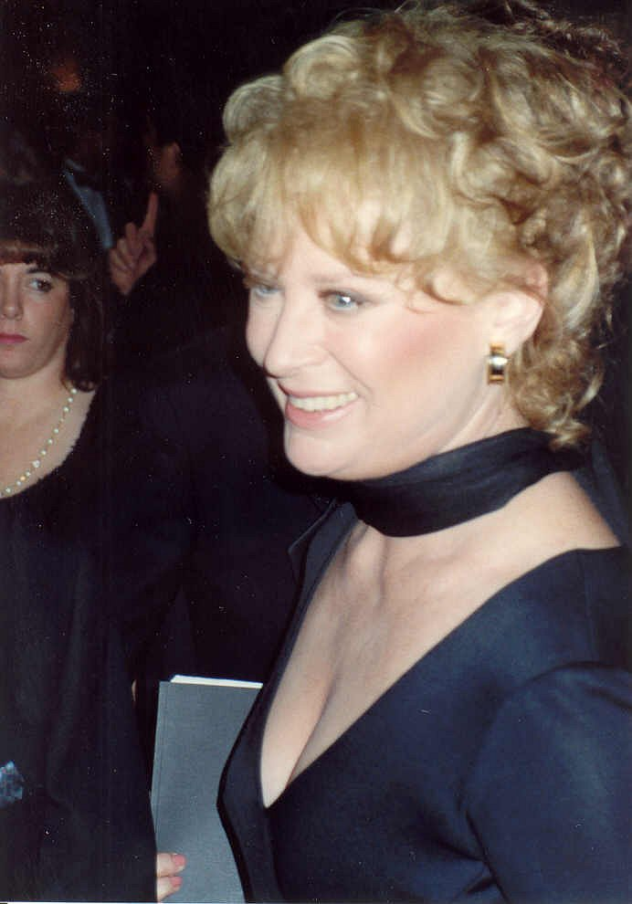 Lois Nettleton at the 41st Annual Emmy Awards